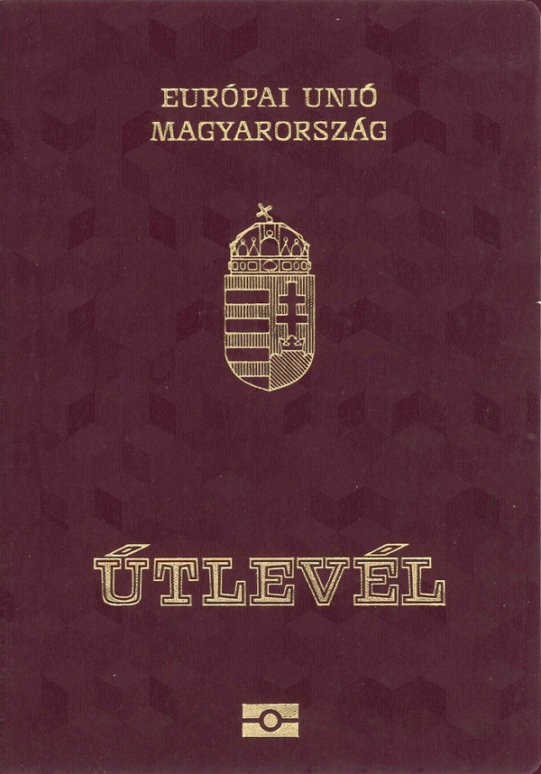 Cover page of a Hungarian passport.